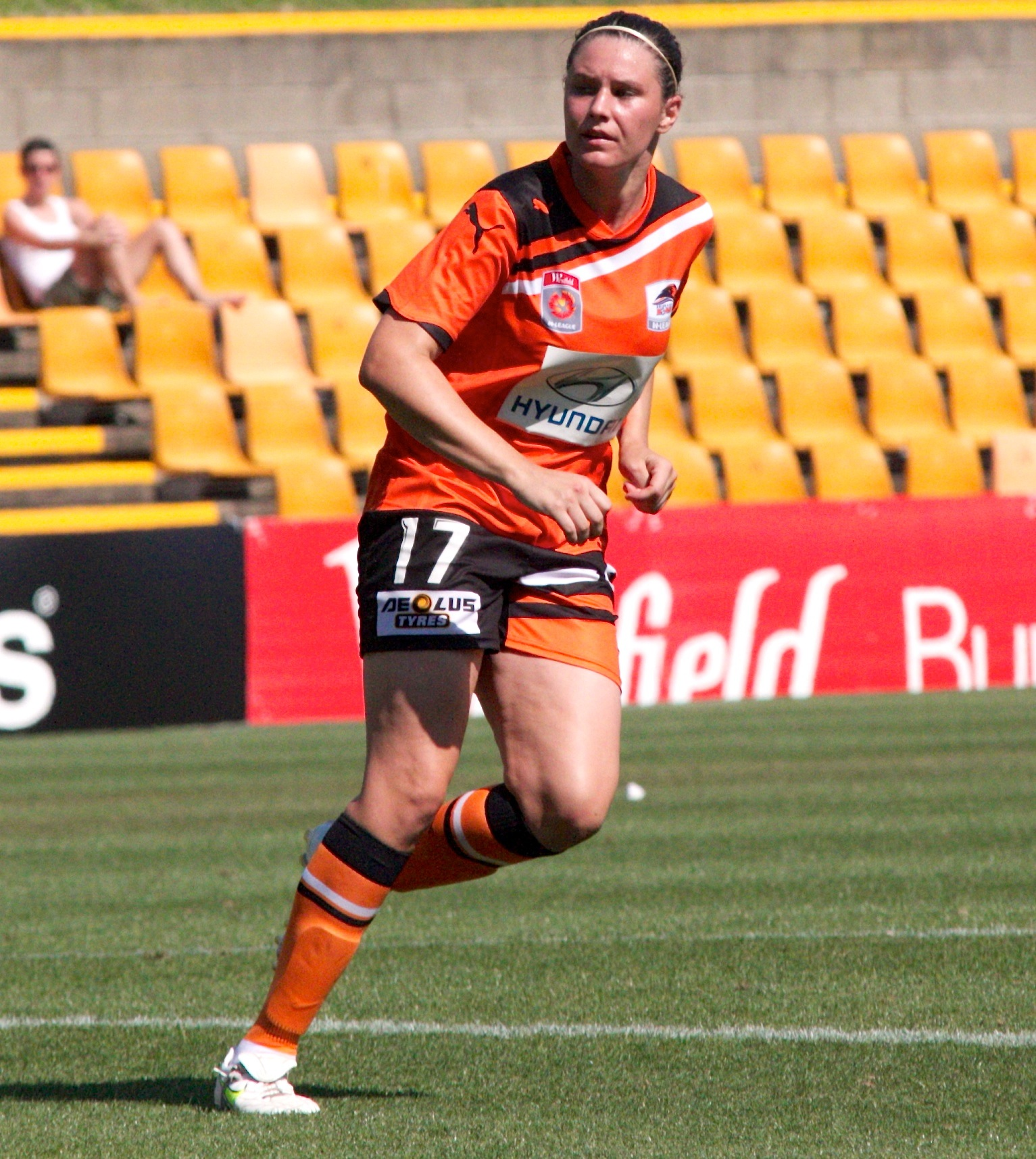 Emily Gielnik